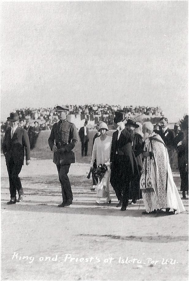 king of Belgium in Isleta (20th of October, 1919)